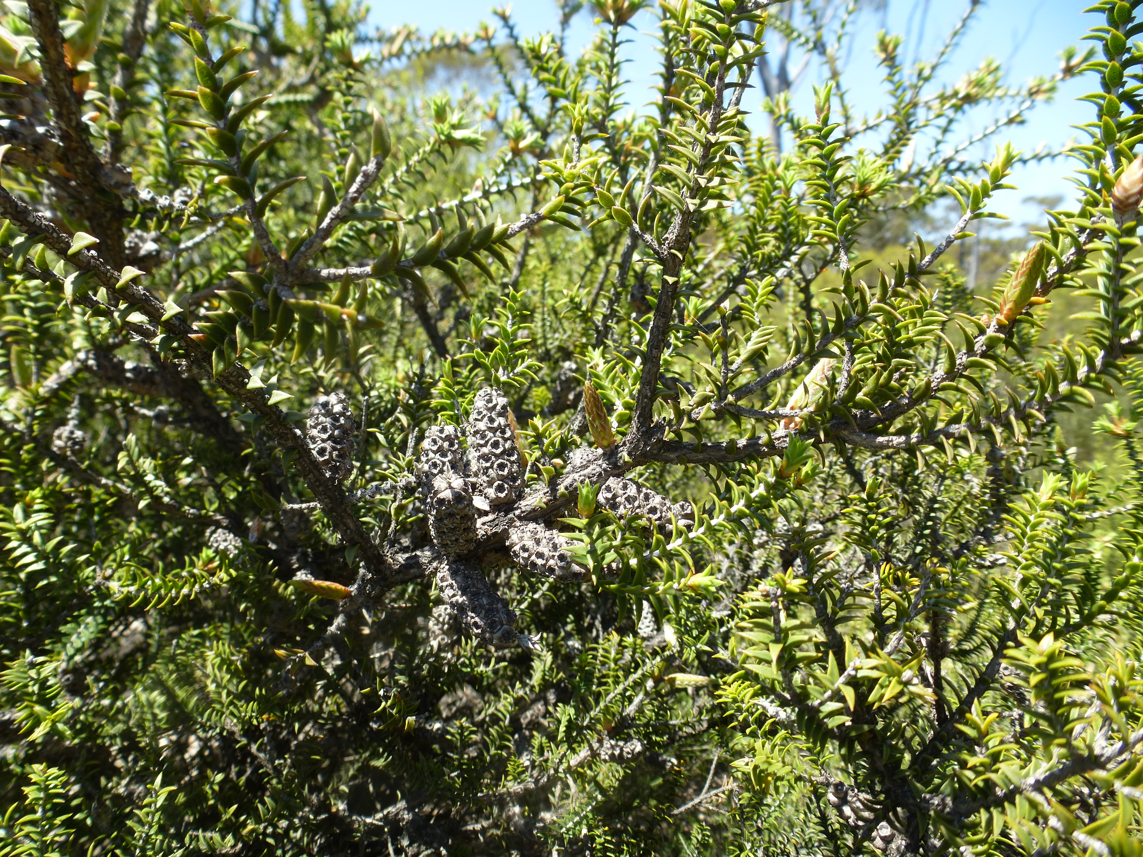 Melaleuca adnata 41 km NE Pingrup